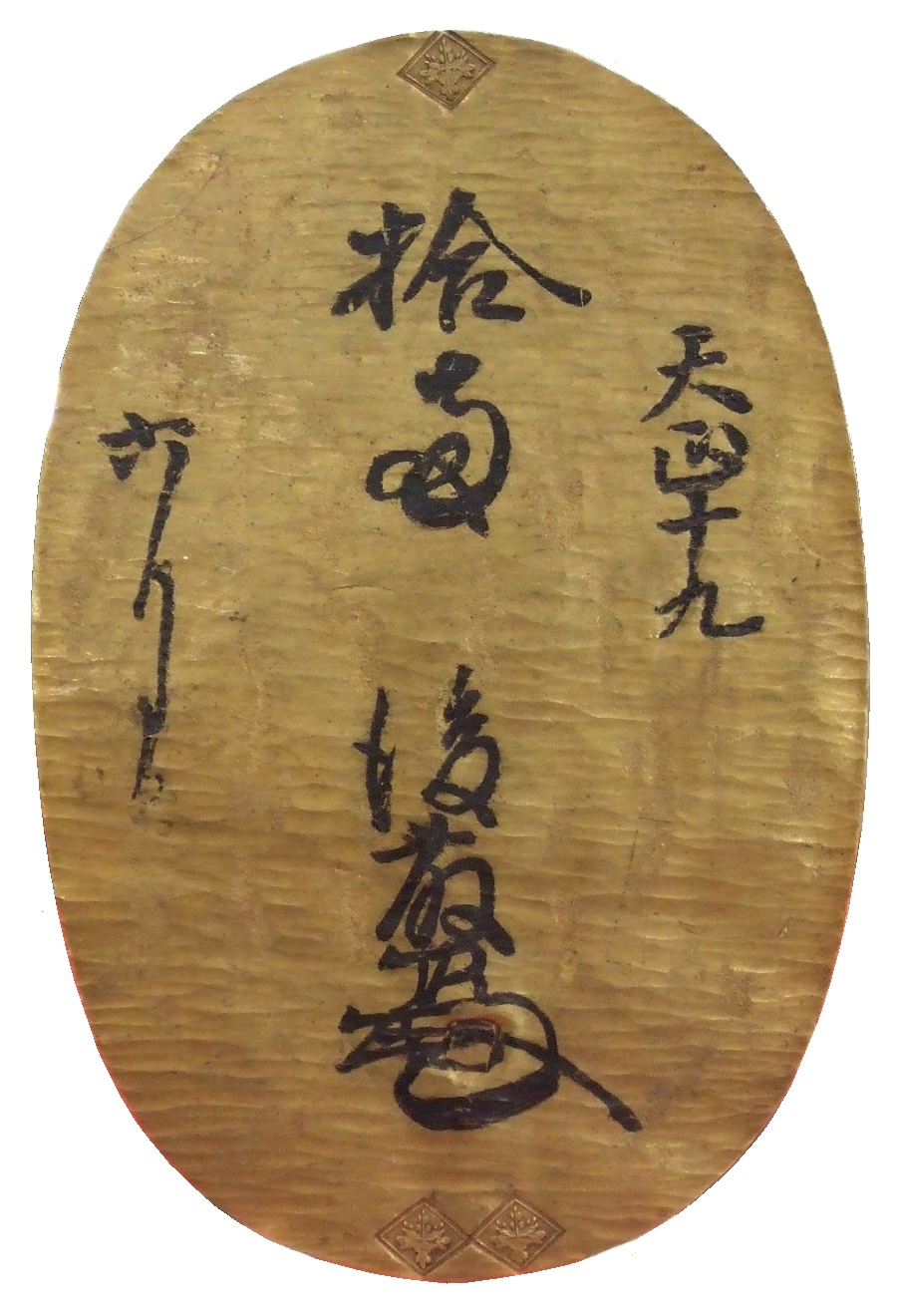 Tensho-hishi-oban(gold oban)